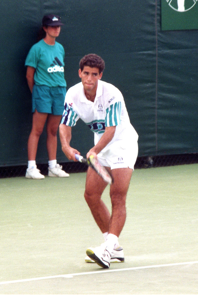 Pete Sampras, 12 August 1992, Thriftway Championships Cincinnati, Ohio Film Scan Camera Canon AE1